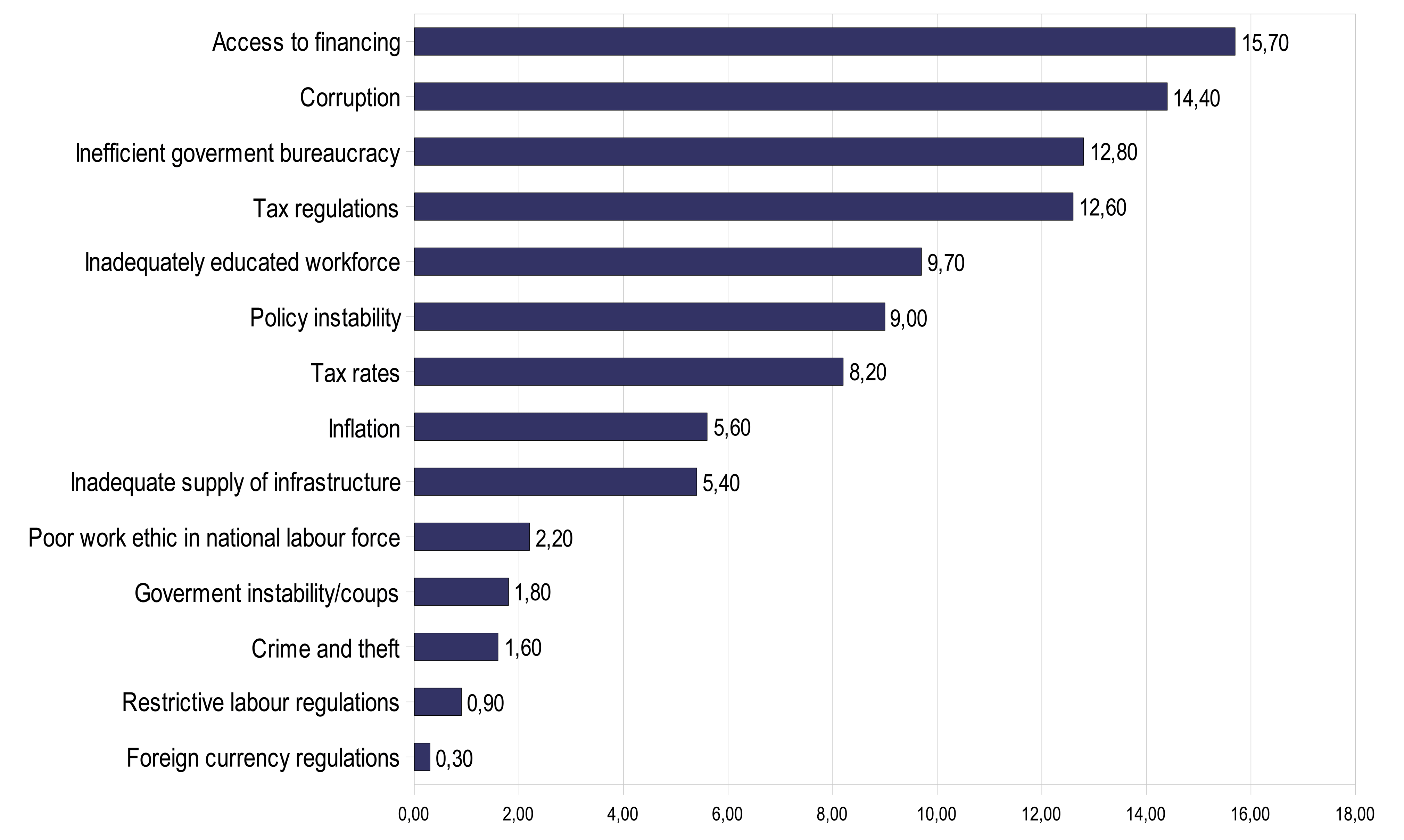 The Most Problematic Factors for Doing Business in Moldova